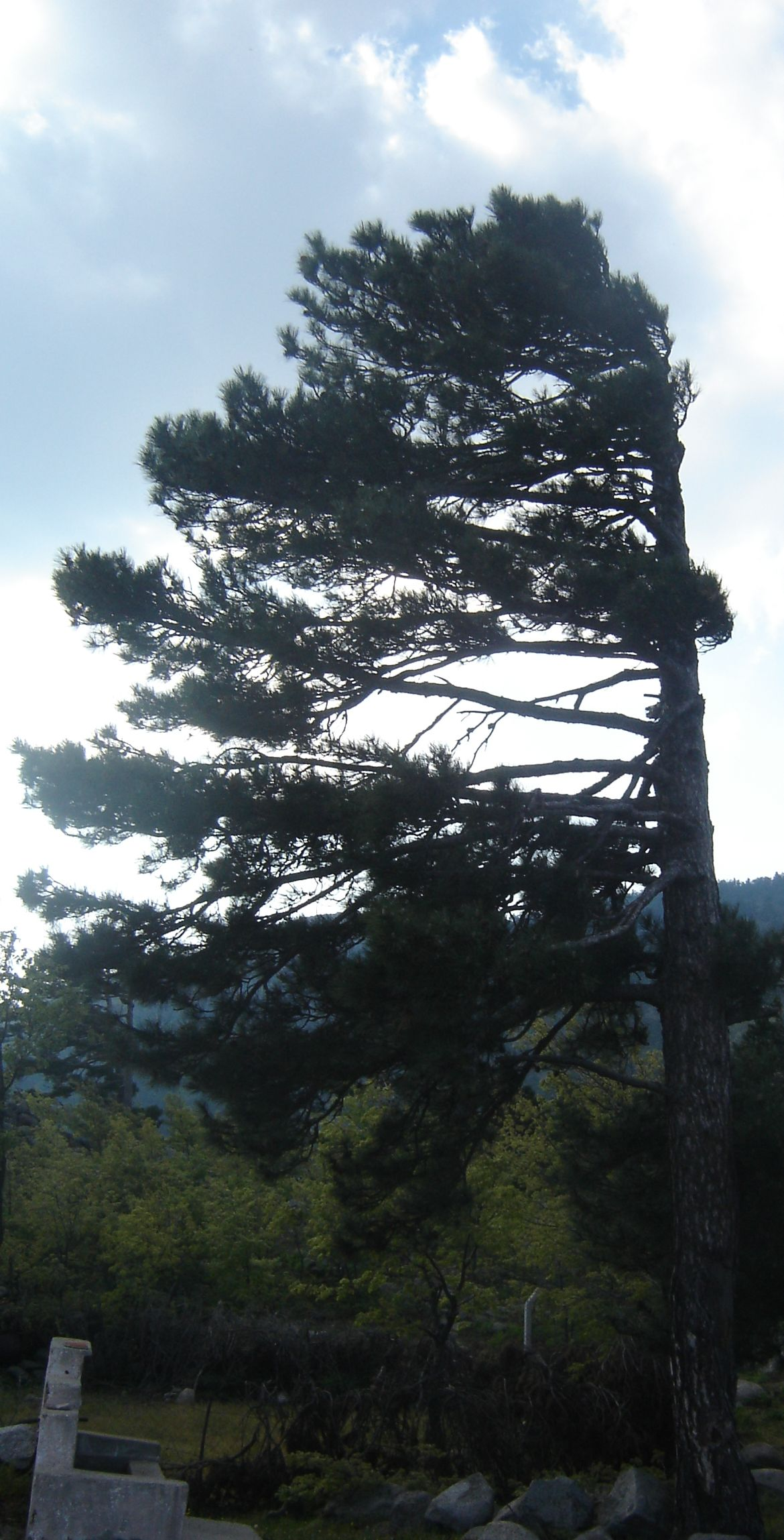 Effect of prevailing wind on a coniferous tree, western Turkey.